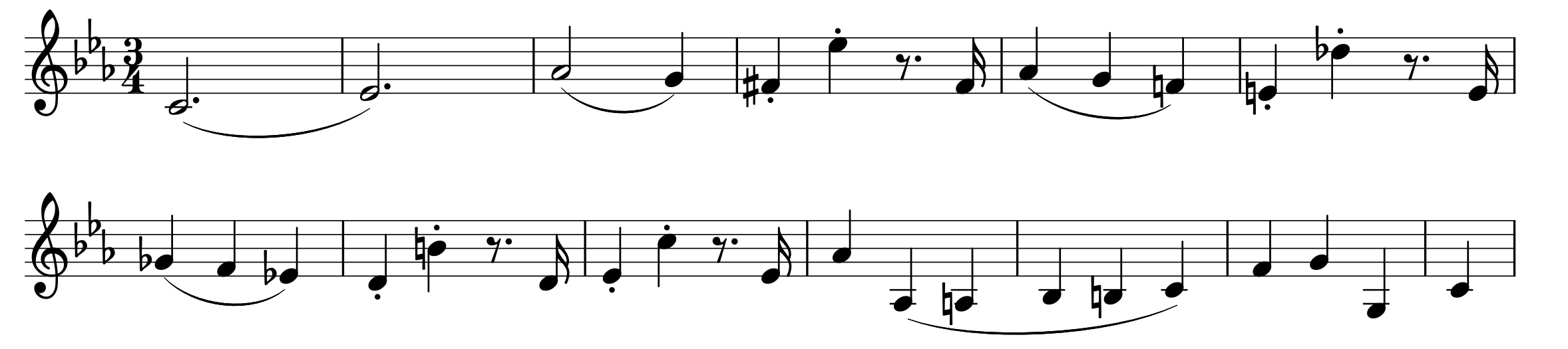 Mozart, Piano Concerto No. 24, K. 491, first movement, principal theme